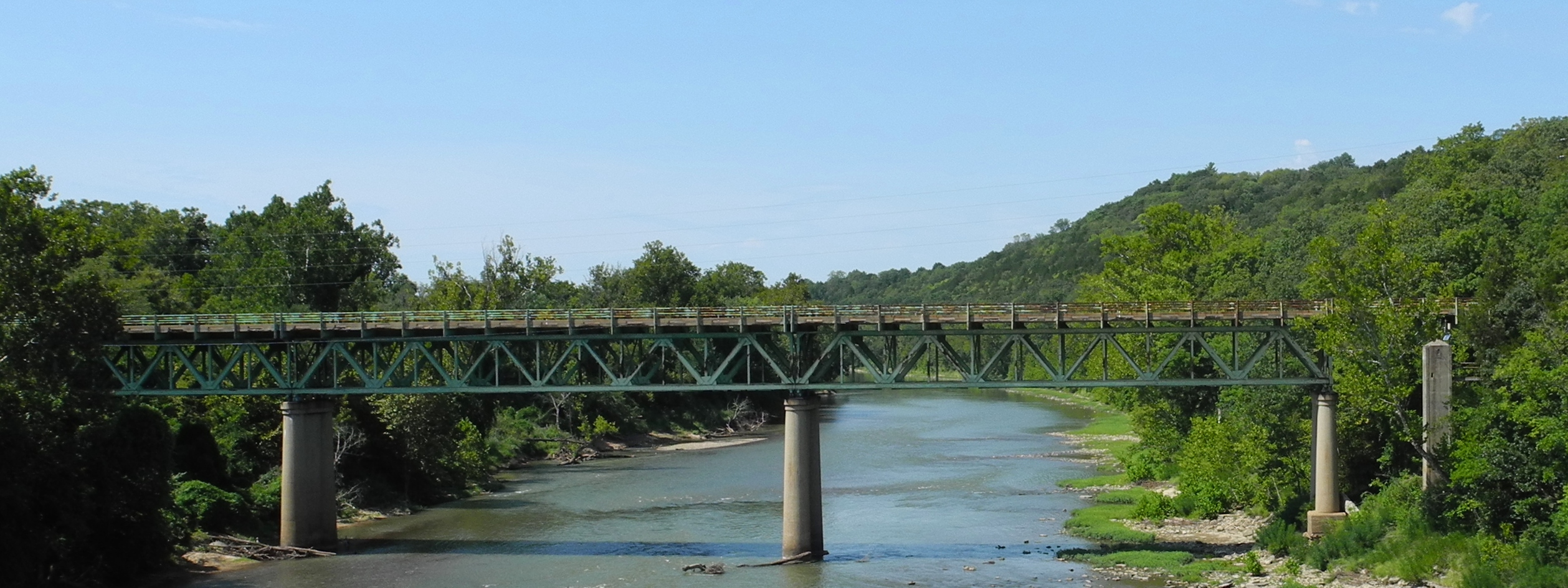 The U.S. Route 66 bridge J421 over the Meramec River at Times Beach in Missouri is a Warren deck truss structure on the National Register of Historic Places.[1][2]